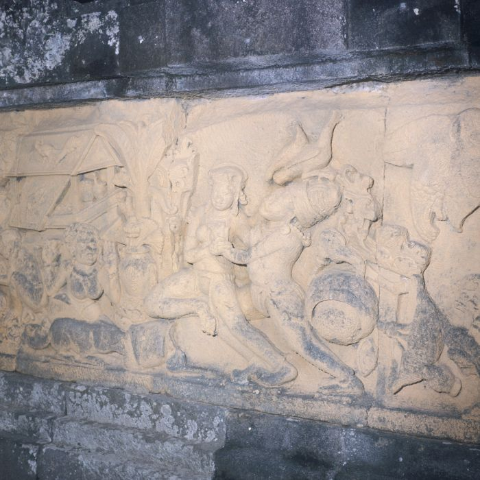 Low relief at the Candi Lara Jonggrang or Prambanan temple complex